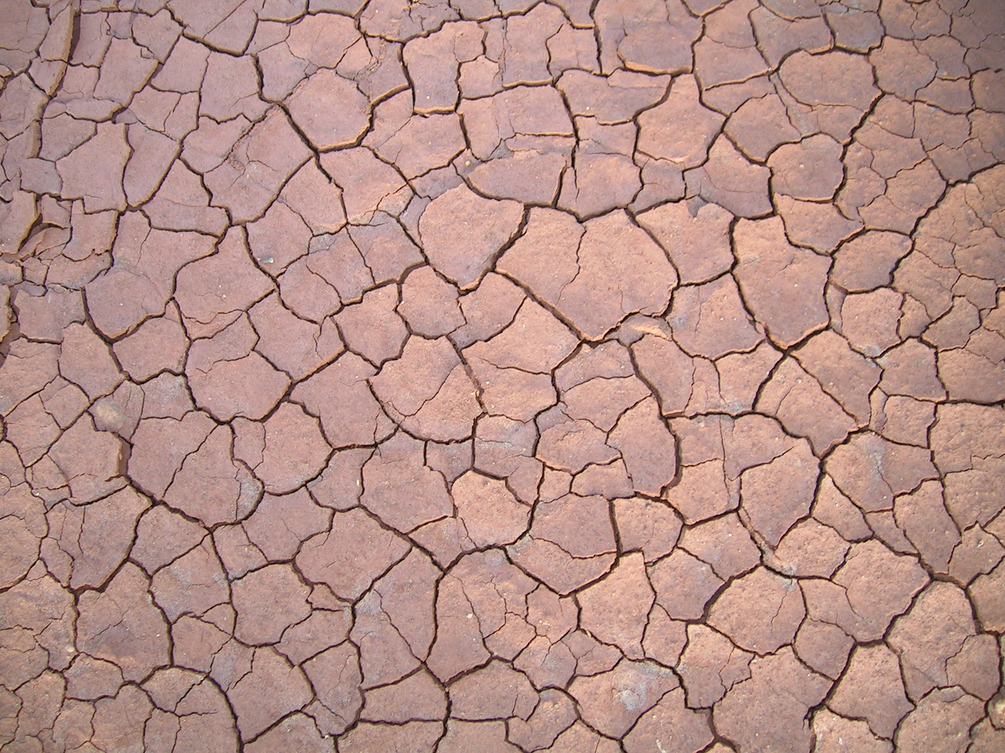 Cracked clay on a drying lake bed, India